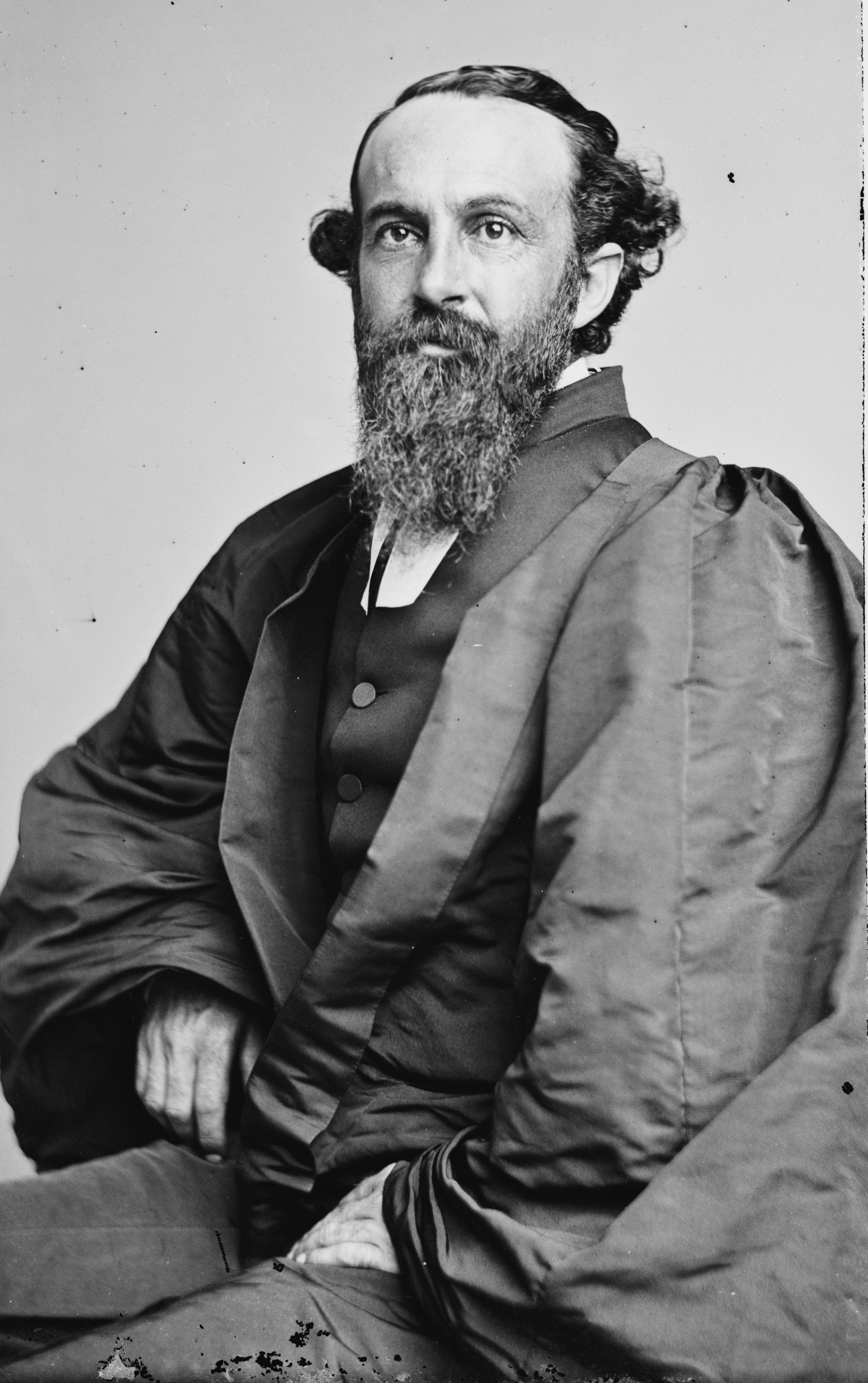 Charles Quintard. Library of Congress description: "Rev. C. T. Quintard".